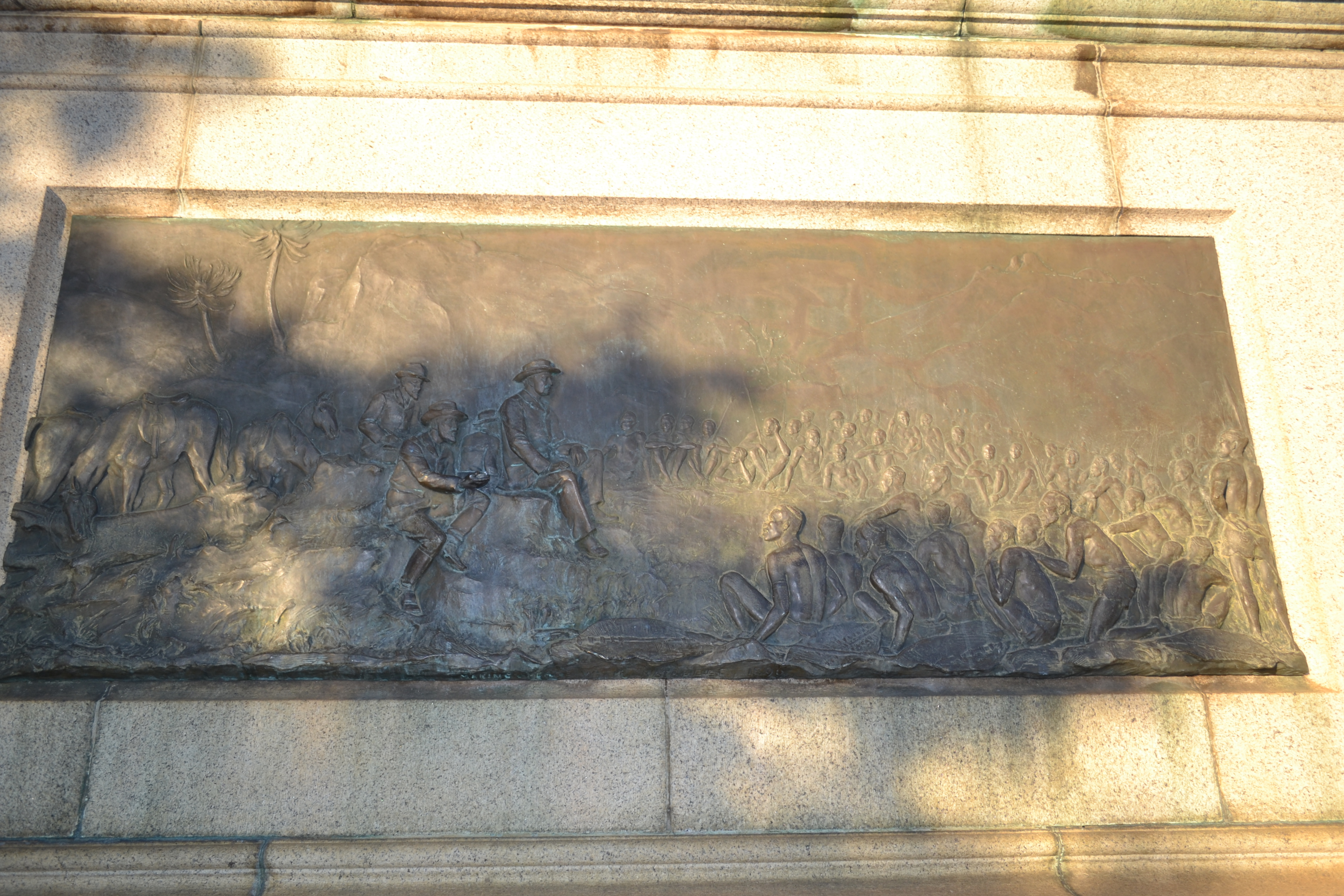 Cecil John Rhodes